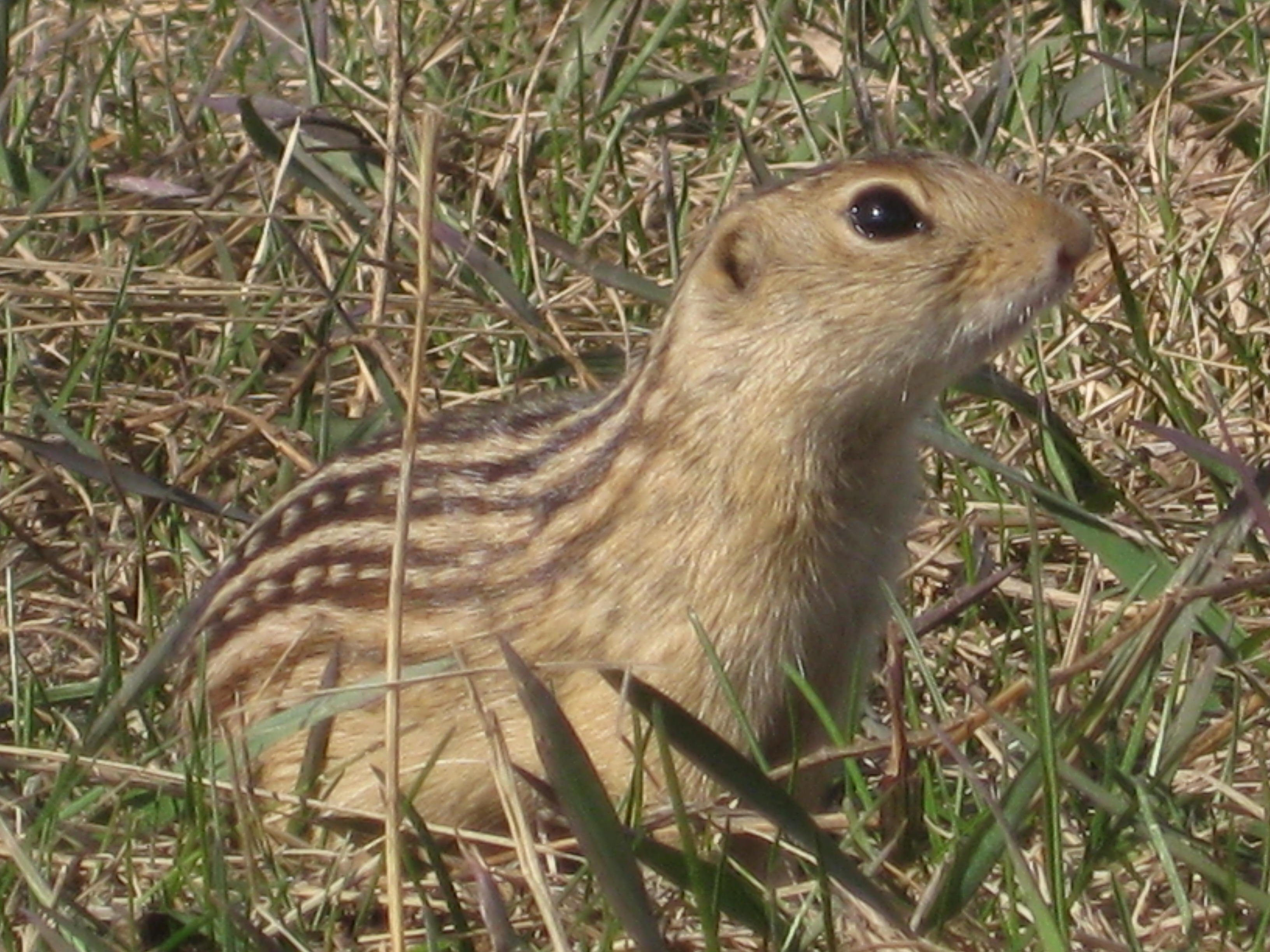 13 lined ground squirrel